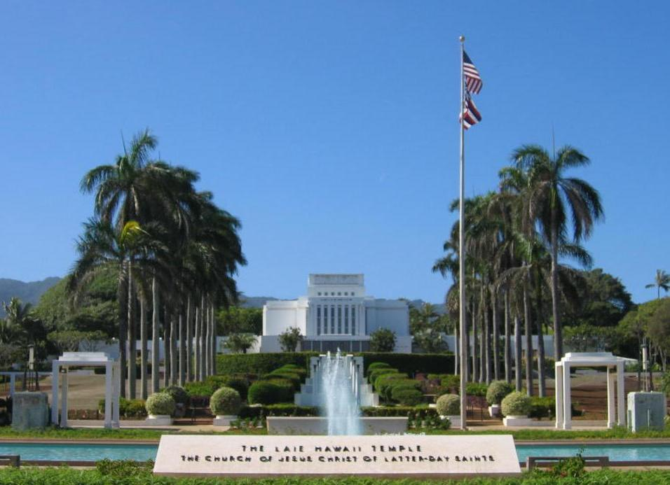 Photo taken by User:Jiang on December 24, 2005.